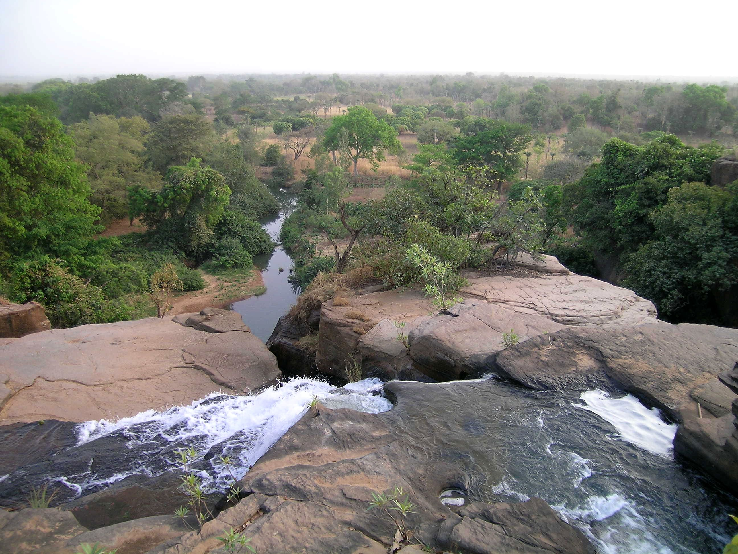 Waterfalls at Karfiguela, Burkina Faso